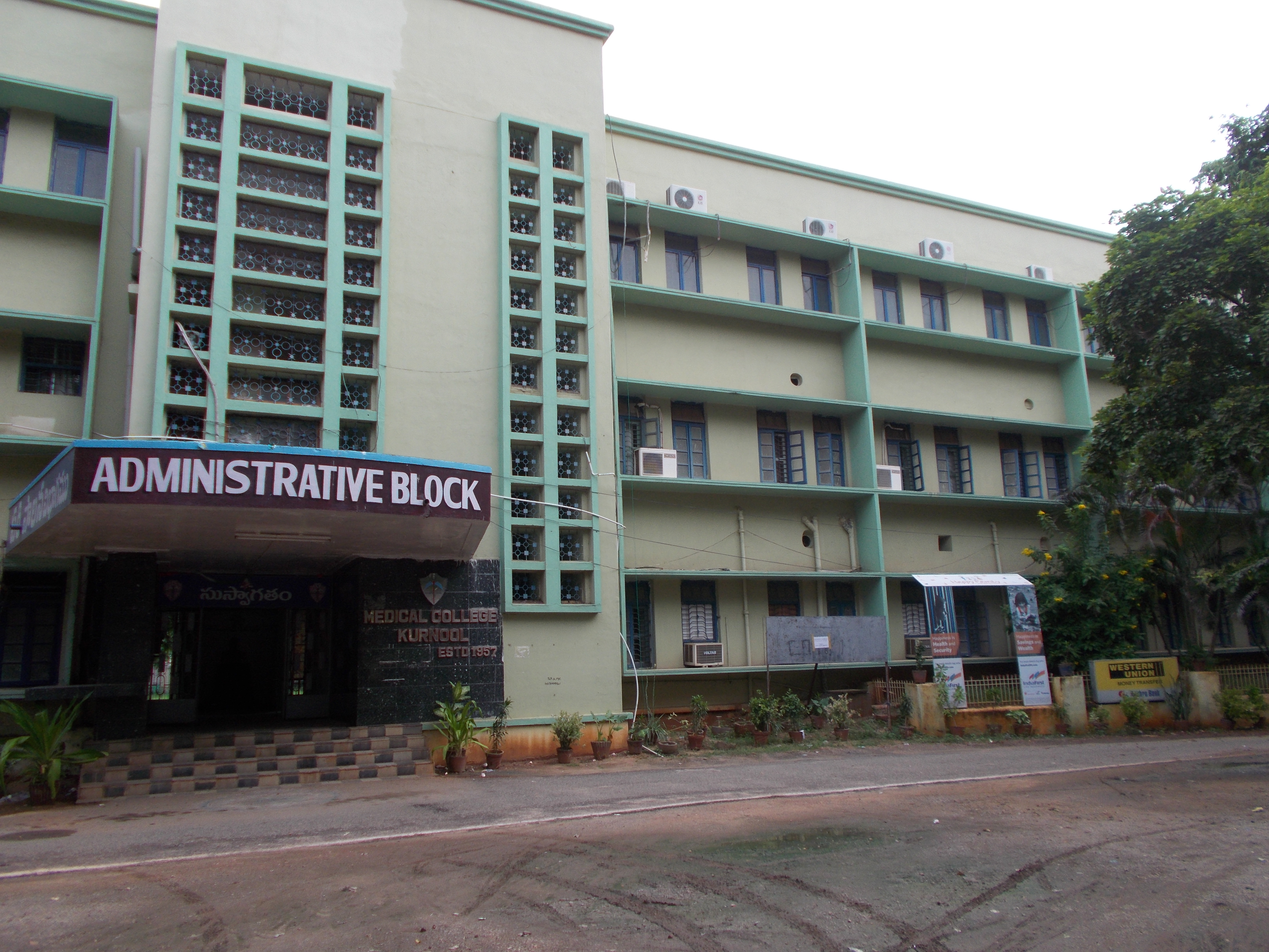 Administrative Block of Kurnool Medical College